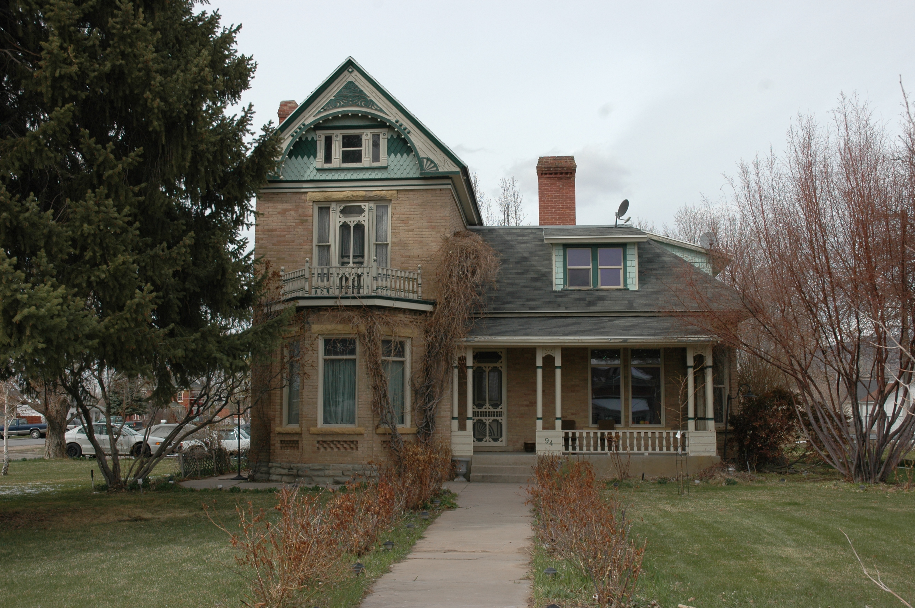 The Edwin Robert Booth House, a historic home in Nephi, Utah, United States.